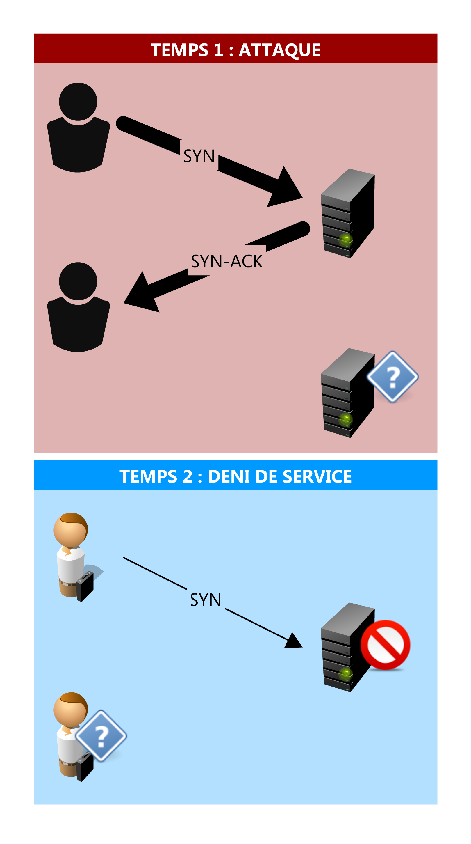 SYN Flood : several connections of the hacker were launched without acknowledgement of receipt, the line of the server becomes full and another client cannot connect any more.